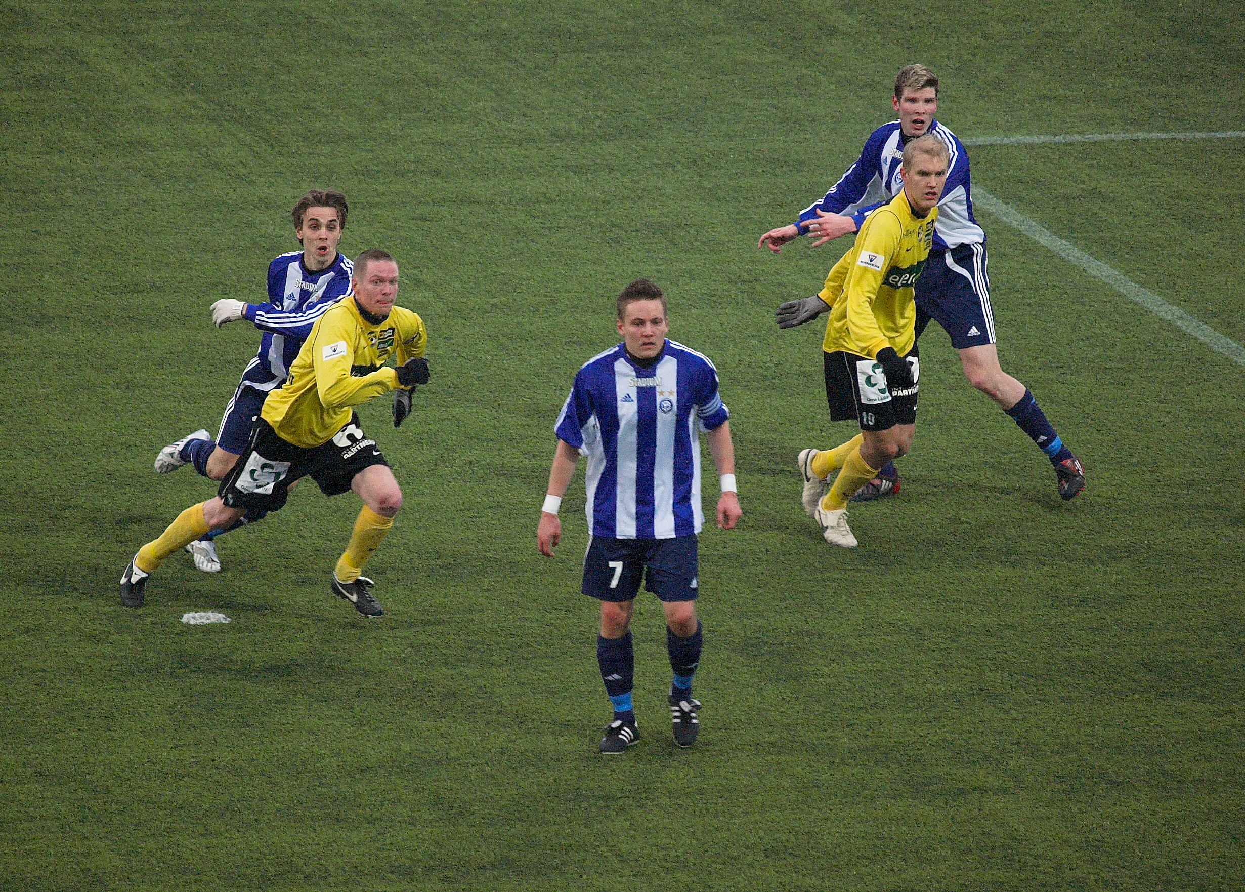 Players eyes are gleaming as they impatiently wait for incoming ball... except HJK-captain Tuomas Haapala, at the middle of the picture, whose thoughts have slipped out from this game, into his own worlds. This picture was featured in Helsingin Sanomat, March 17, 2008, pg. A9. Left: Defender Jani Hartikainen (KuPS, captain), behind him midfielder Jarno Parikka (HJK) Centre: Defensive midfielder Tuomas Haapala (HJK, captain) Right: Striker Ilja Venäläinen (KuPS), behind him defender Tuomas Aho (HJK) Game: Kuopion Palloseura (KuPS) - Helsingin Jalkapalloklubi (HJK), Finnish (Premier) League Cup, 11th March 2008 at Magnum Areena, Kuopio. Game ended 1-2 (1-2). Christopher Joyce (0-1, 15min) Tuomas Aho (0-2, 38min) Patrik Turunen (1-2, 45min)